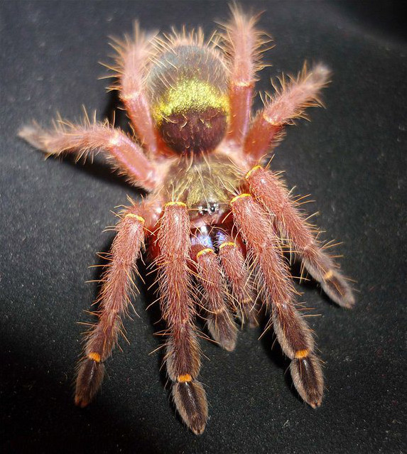 Ephebopus Cyanognathus L5